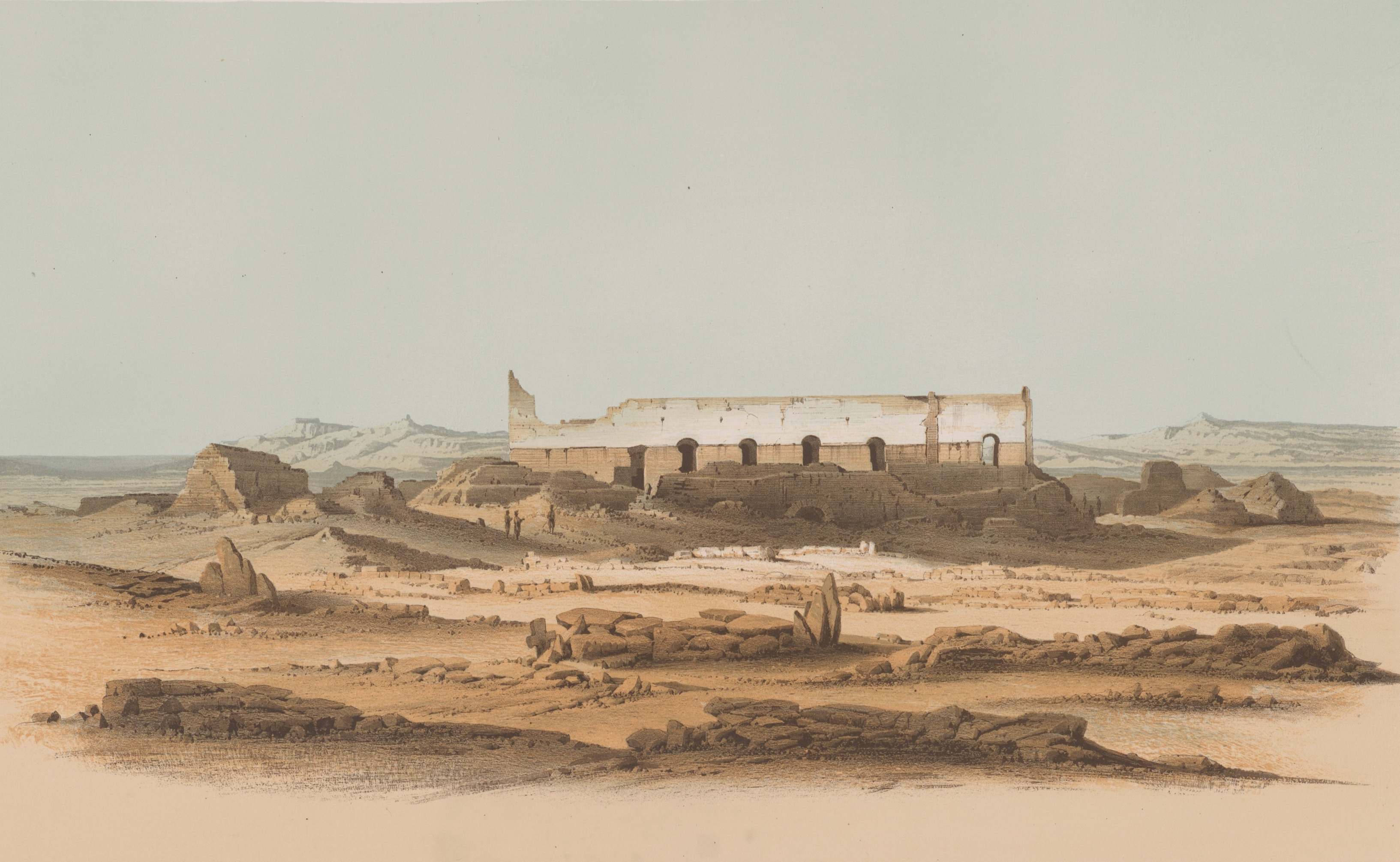 Klosterruine von Wadi Gazâl: Aeussere Ansicht, Innere Ansicht.